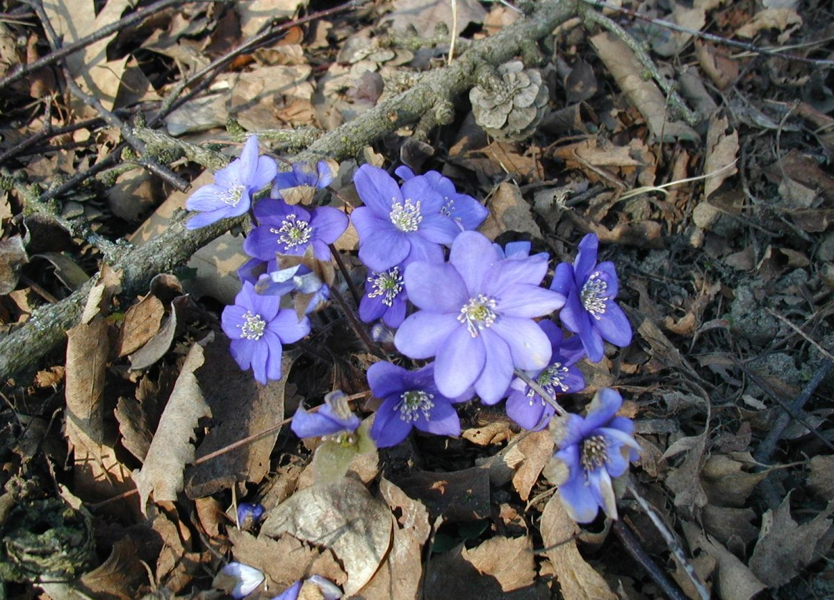 Hepatica nobilis: Flowers.